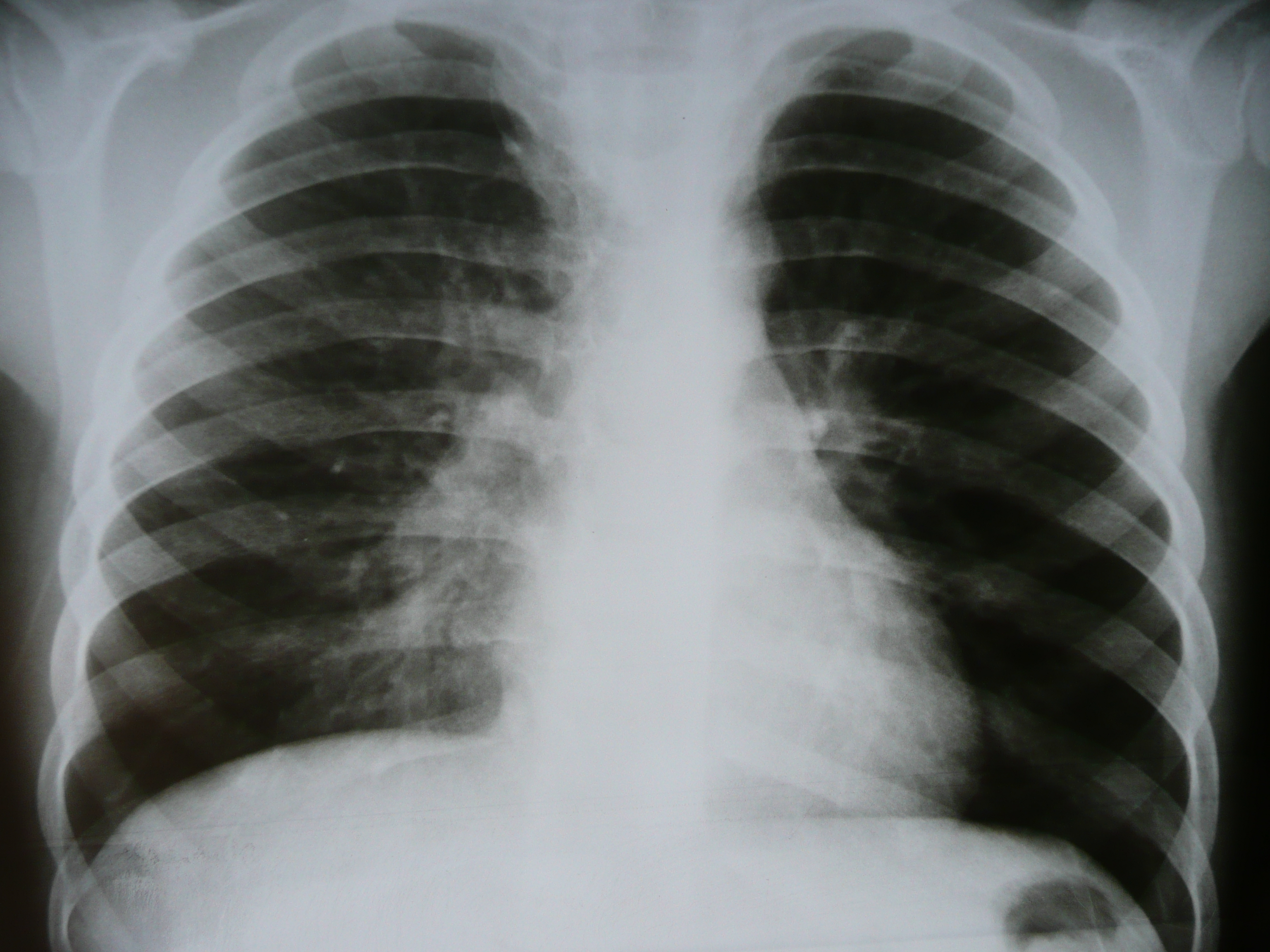 Medical X-rays Asymmetric opacity of chest and right paracardiac infiltrations